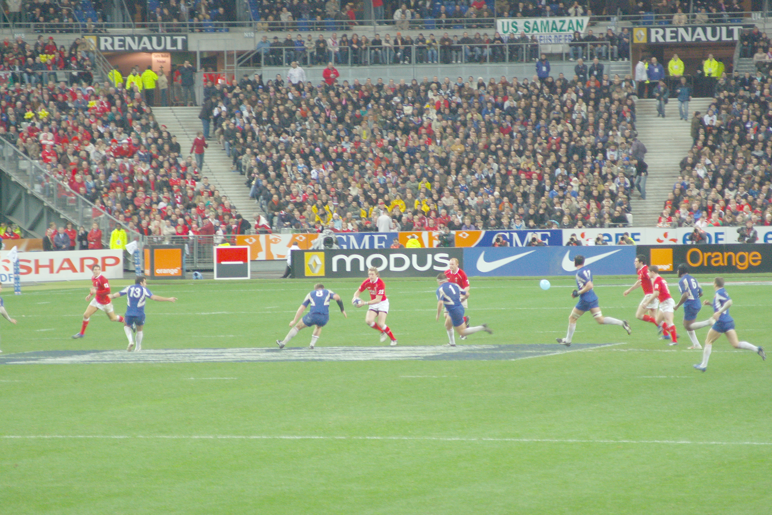 Pictures from the rugby game France vs Wales for 6 Nations 2007 which took place in Stade de France, Paris, 24/02/2007.